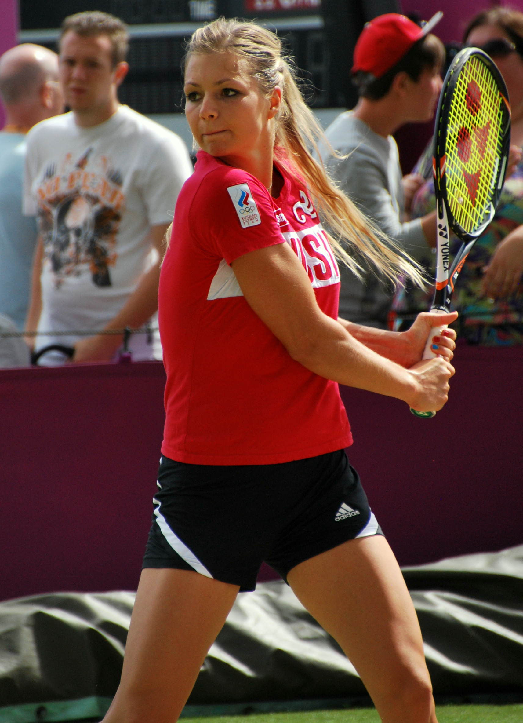 Maria Kirilenko on the practice court with Russian team-mate and doubles partner Nadia Petrova, before her first round match in the London 2012 Olympics at Wimbledon.